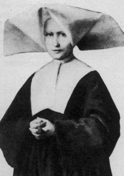 Saint Catherine Labouré (1806-1876), Marian visionary